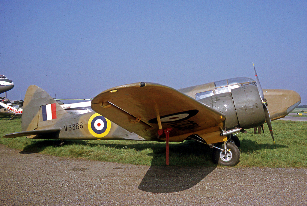 Airspeed AS.10 Oxford 1 V3388 (G-AHTW) at Gloucester (Staverton) Airport in 1971